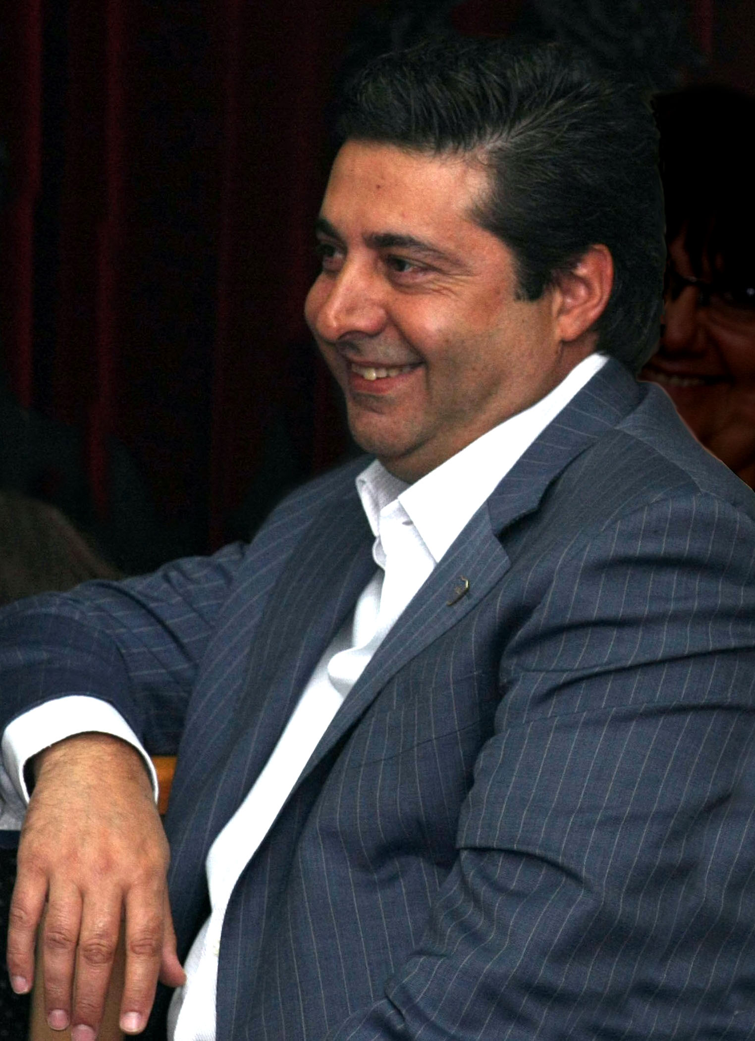 Vte Lopez. Diciembre 12 de 2011. El jefe de Gobierno de la Ciudad de Buenos Aires, Mauricio Macri, asistió hoy a la jura del electo intendente de Vicente López, Jorge Macri, junto al ministro de Educación porteño, Esteban Bullrich, y el presidente del Club Boca Juniors, Daniel Angelici.